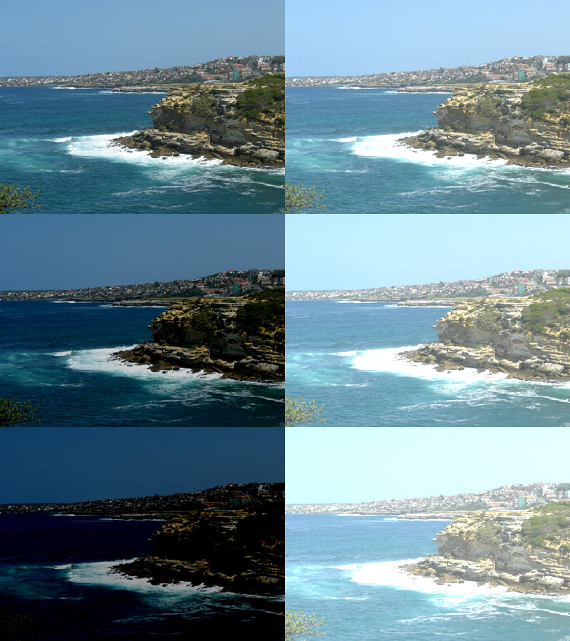 Changes in a photo's Brightness Top Left: original photo Middle left: -50% Bottom left: -100% Top right: +50% Middle right: +75% Bottom right: +100%